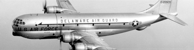 A U.S. Air Force Boeing C-97G-23-BO Stratofreighter (s/n 52-0929) from the 142nd Military Airlift Squadron, 166th Military Airlift Group, Delaware Air National Guard in flight. The 166th MAG flew the C-97 from 1962 to 1971. The C-97G 52-0929 was retired to the MASDC as CH0505 on 23 June 1971.